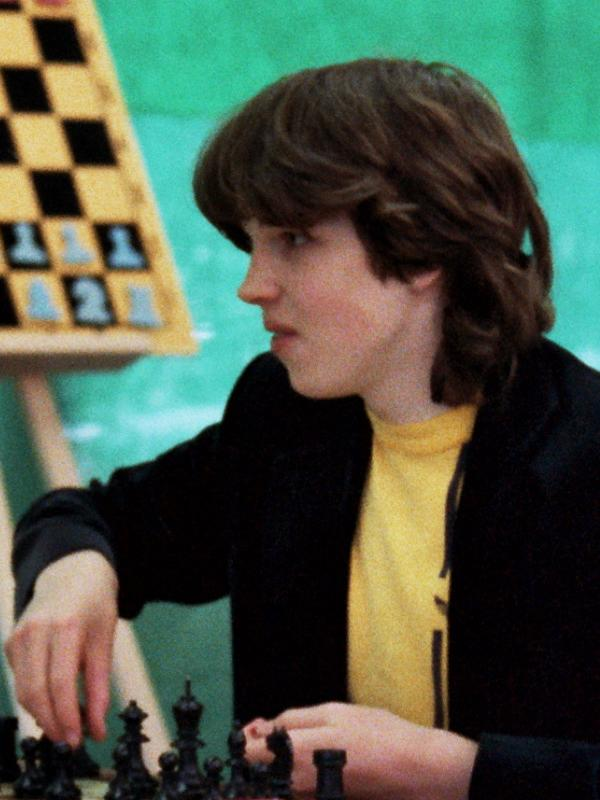 Nigel Short, Junior Chess World Championship 1980 at Dortmund, Photographer Gerhard Hund.